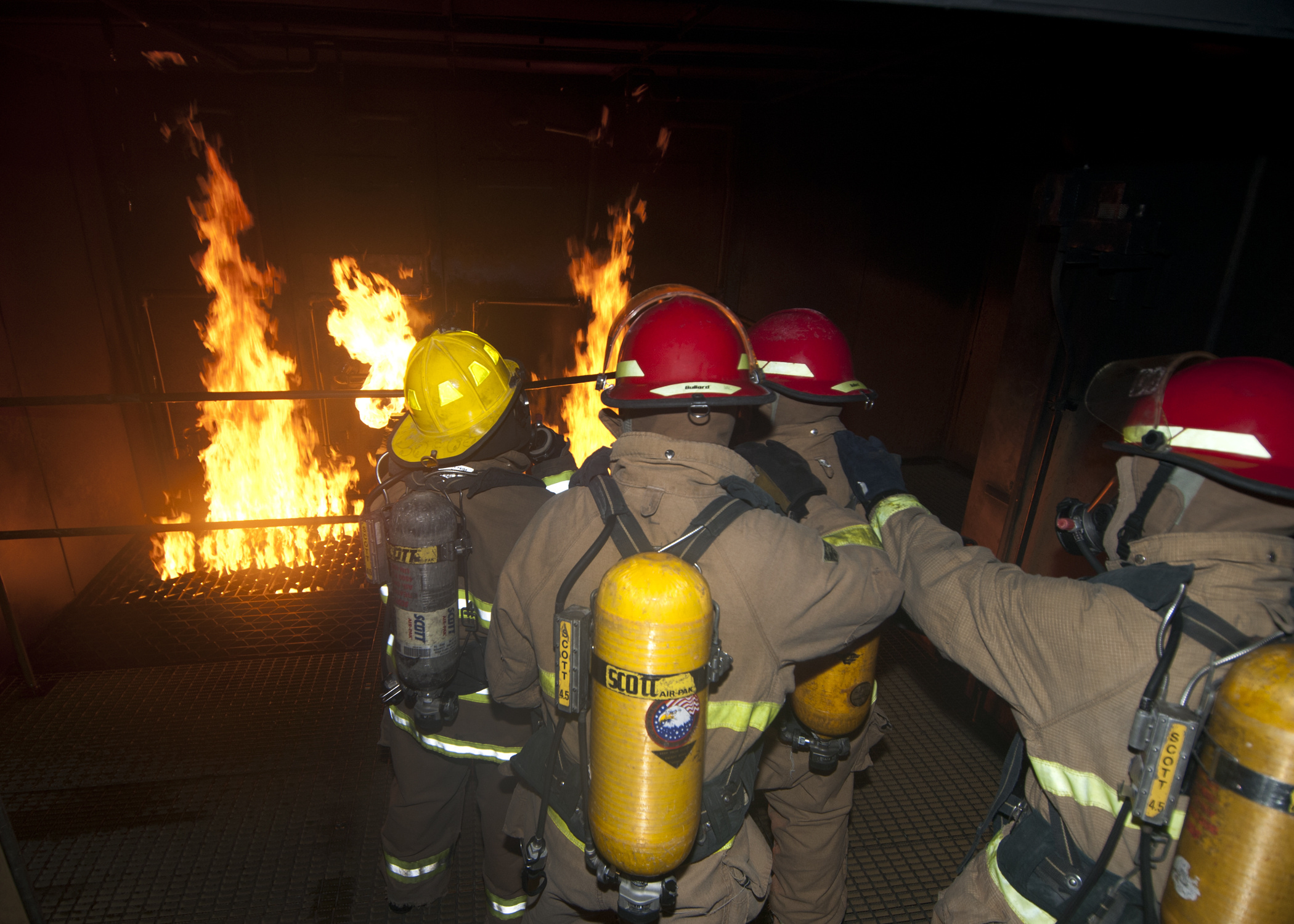 A group of multinational sailors extinguish a fire during a firefighting training exercise at the Norfolk Farrier Firefighting School in Norfolk, Va., Aug. 10, 2012. The school hosts an annual weeklong firefighting and damage control training course for foreign and U.S. personnel.